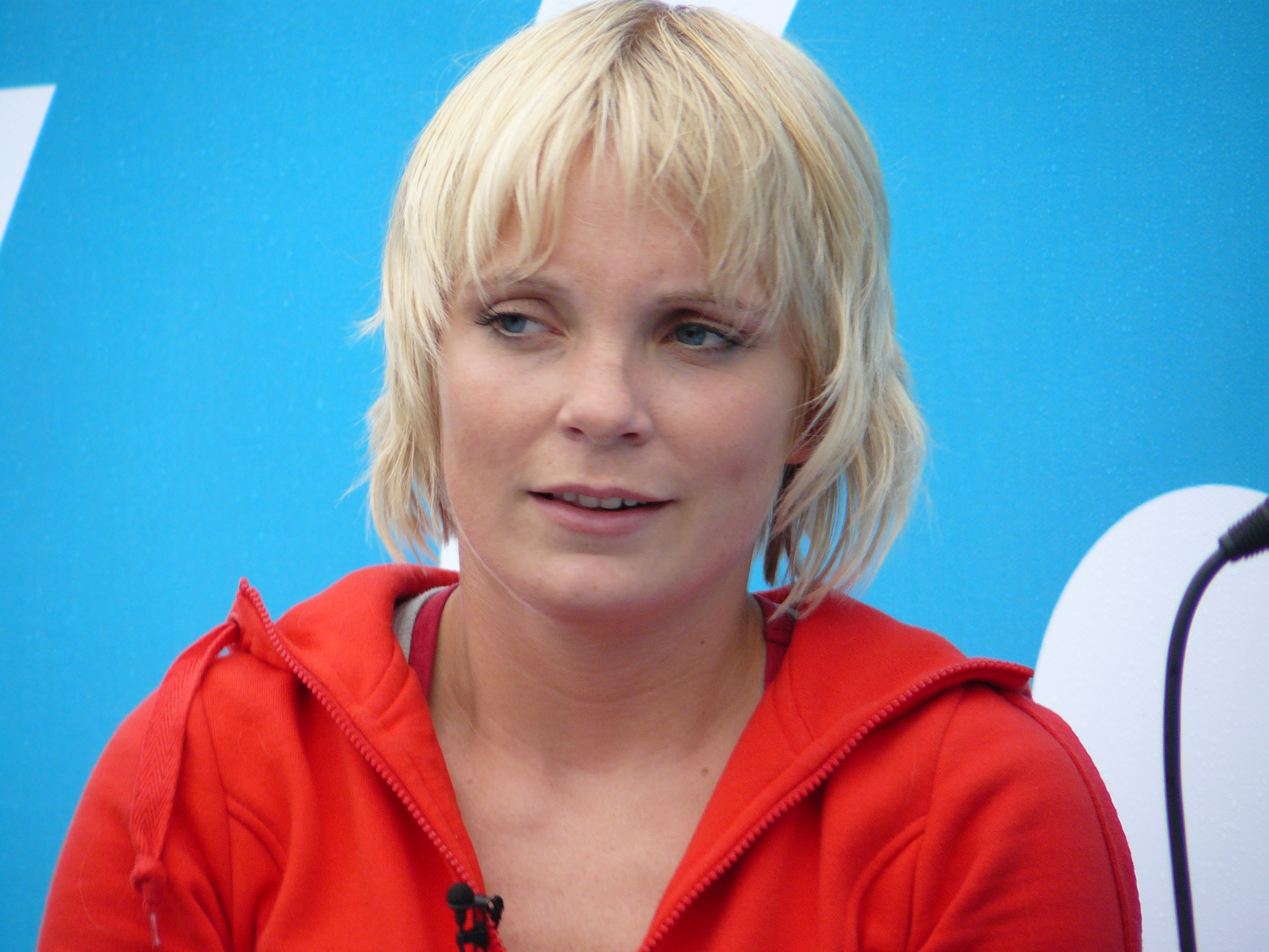 Solveig Hareide, Norwegian TV-celebrity and host of children programs